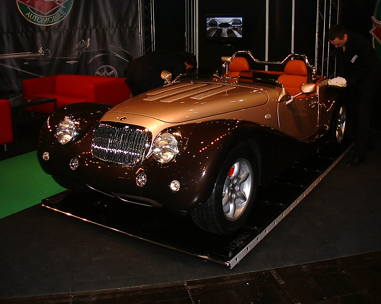 The roadster "Leopard" at the AMI in Leipzig, Germany.